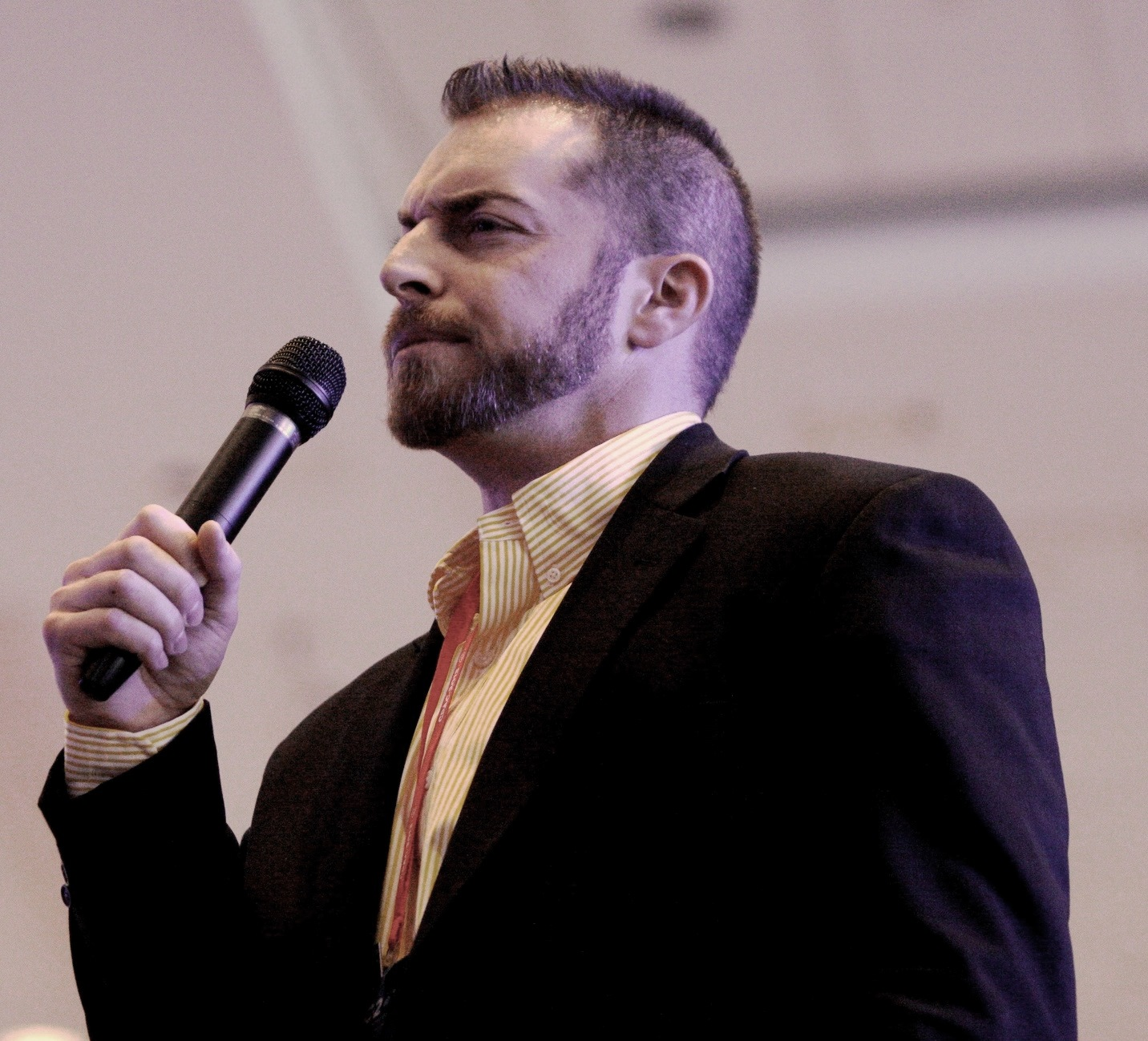 Adam Kokesh at the 2013 Conservative Political Action Conference (CPAC) in National Harbor, Maryland.